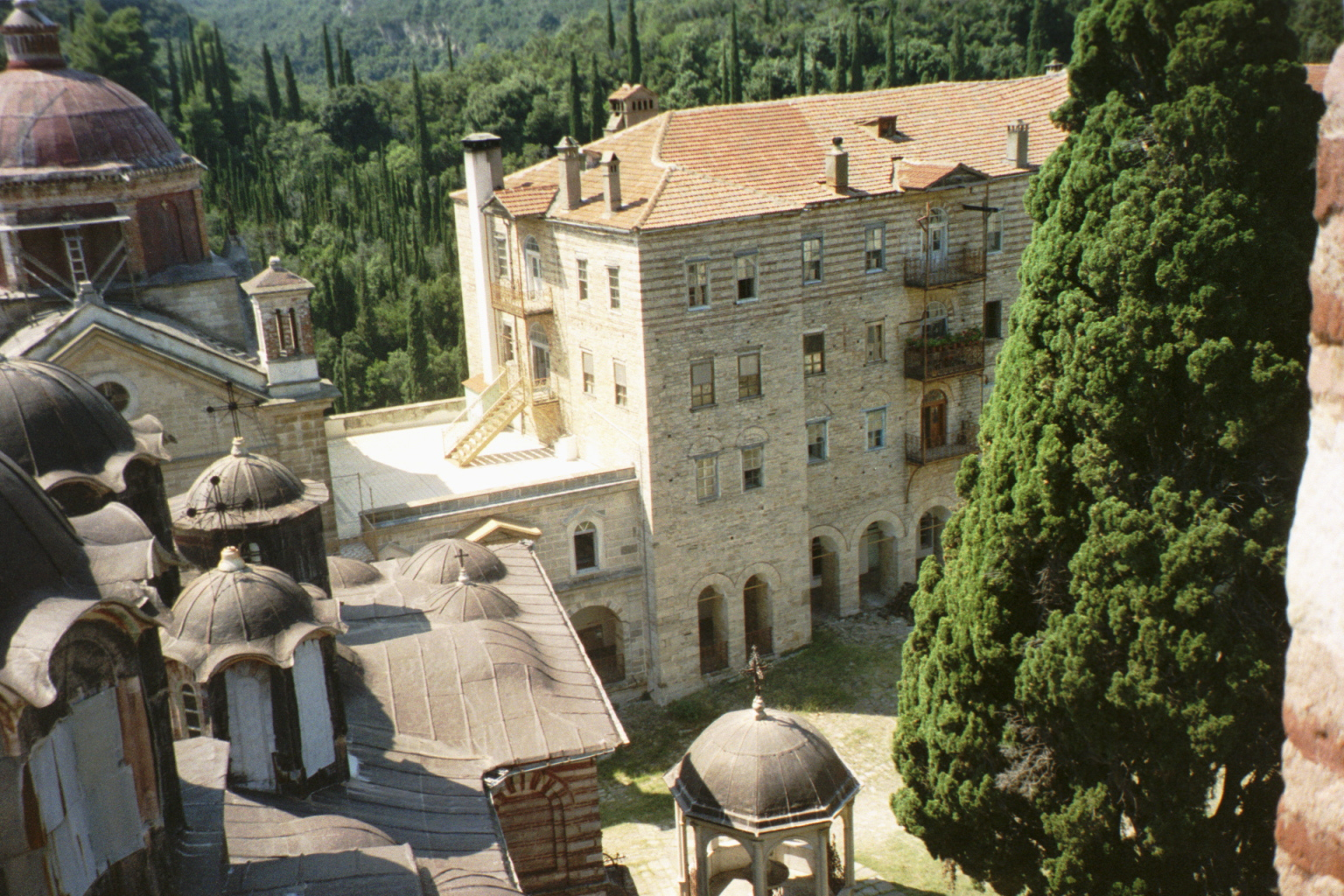 View on the inner court of Zografou